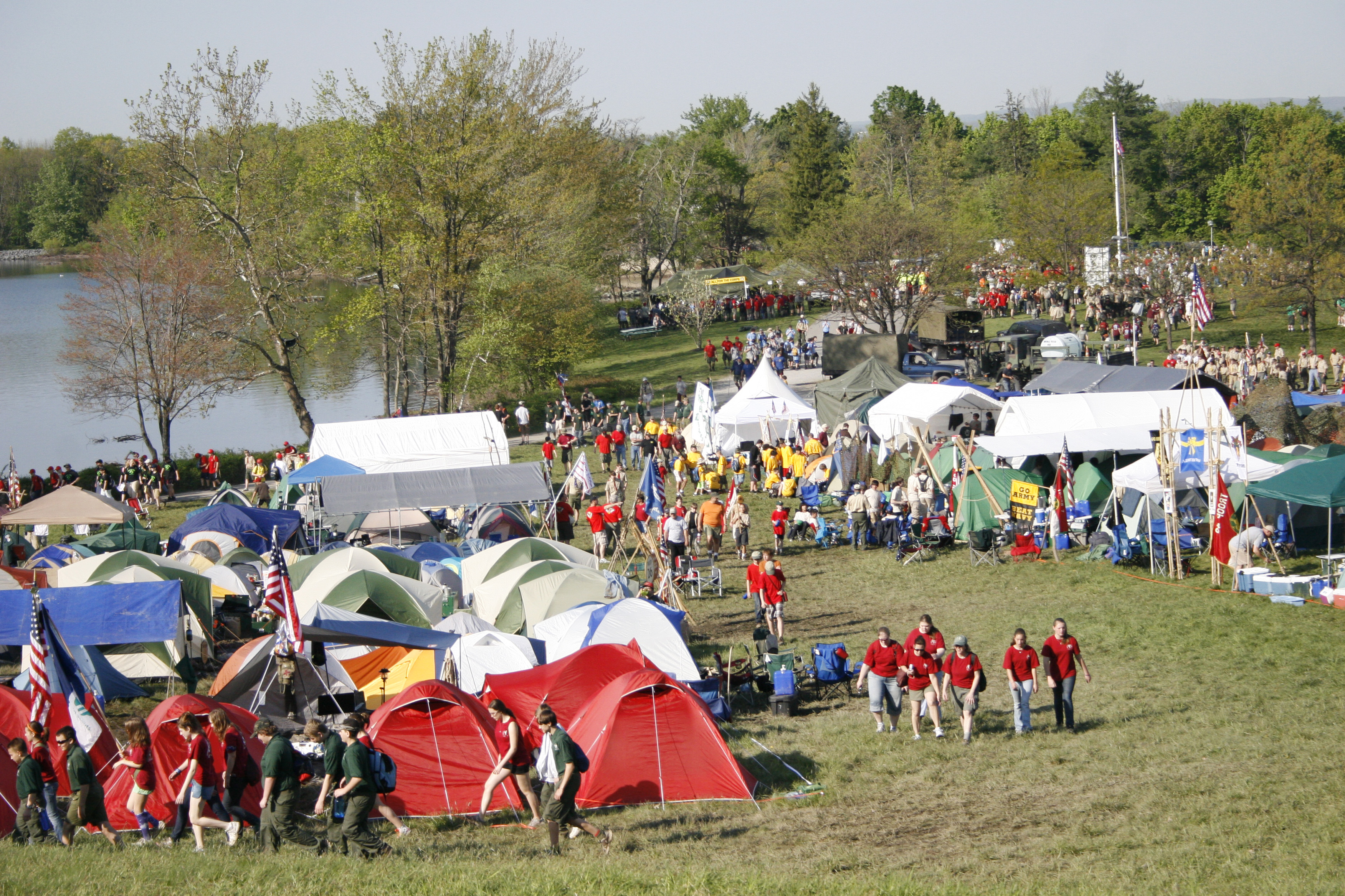 It was a virtual tent city sprawled out among the sprawling acres of Lake Frederick, as Boy Scout and Girl Scout troops from across the country attended the 2010 U.S. Military Academy Scoutmaster Council's Camporee April 30-May 2, 2010. Photo by Mike Strasser, Pointer View